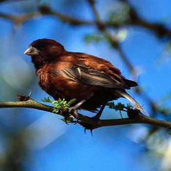 A male Chestnut Sparrow perching on a branch in Kenya.